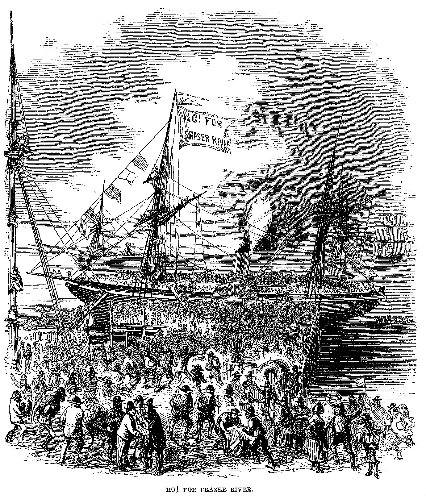 "Ho! For Frazer River" (sic), illustration from "A Peep at Washoe" by J. Ross Browne, in Harper's Monthly Magazine, December 1860. This would be the Fraser Canyon Gold Rush of 1858. Note that the misspelling in the caption is not in the picture itself.